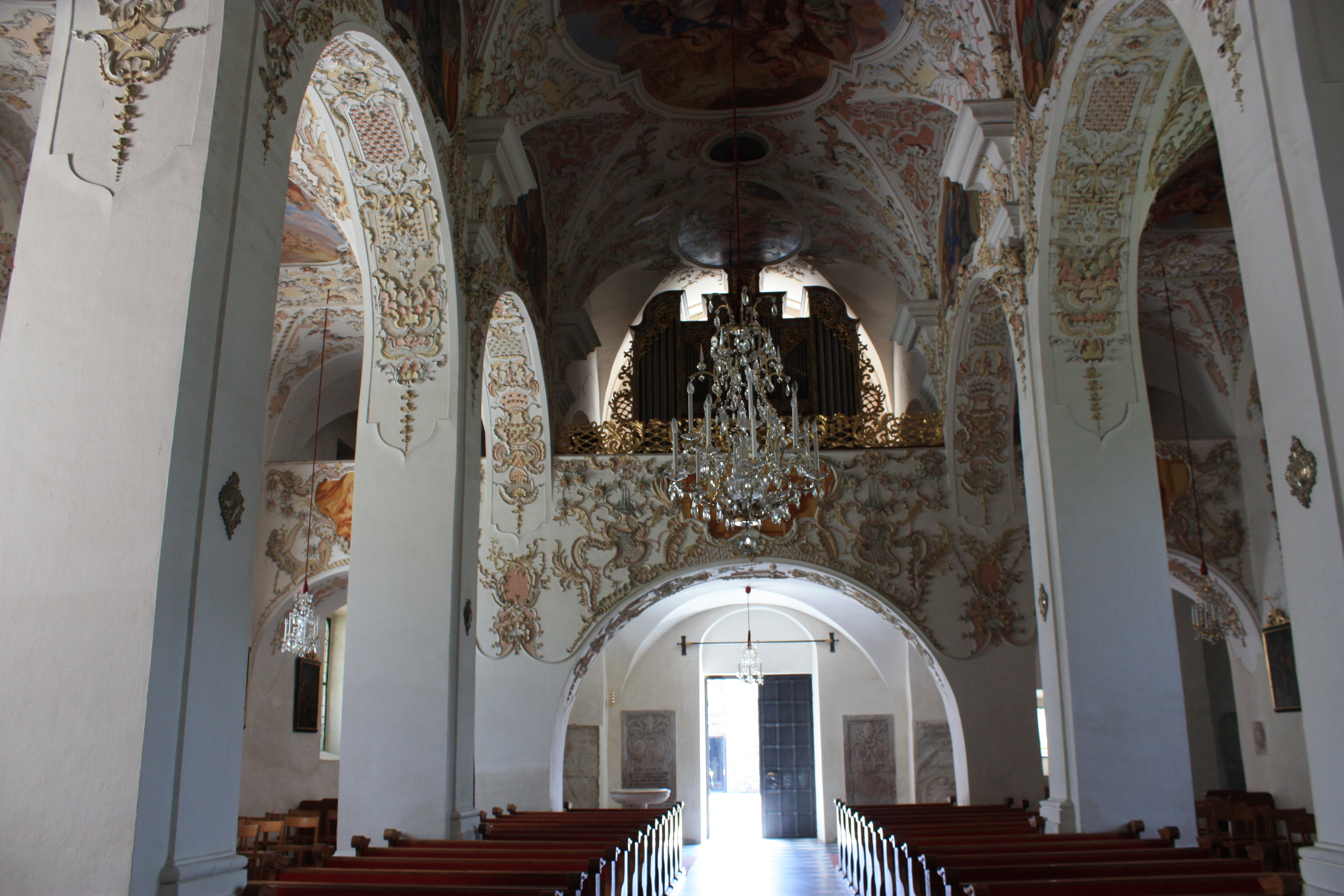 Monastery Ossiach - Church - View to the organ Community:Ossiach District:Feldkirchen State:Carinthia Country:Austria